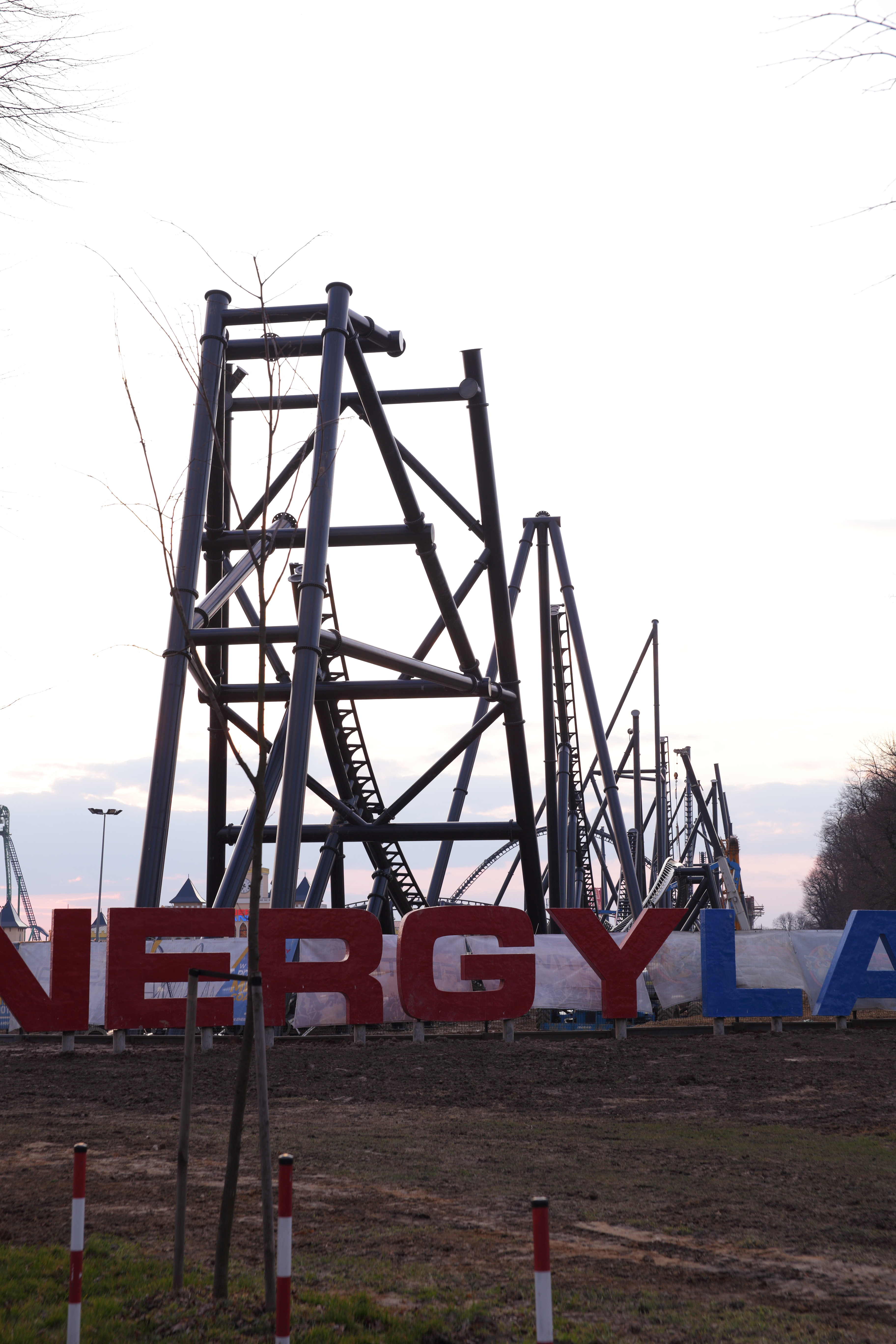 Construction of Hyperion (Intamin Mega Coaster) in Energylandia, Zator, Poland (2018-04-02).